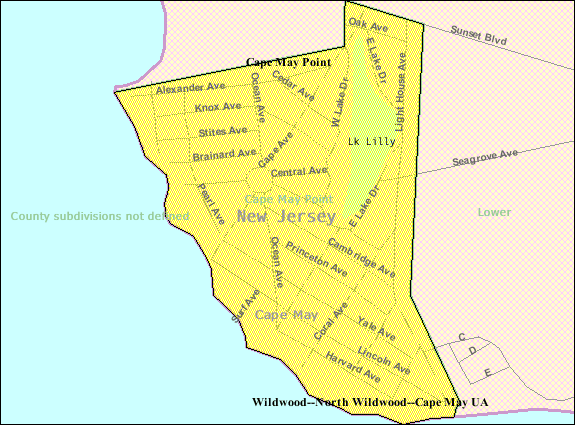 Census Bureau map of Cape May Point, New Jersey